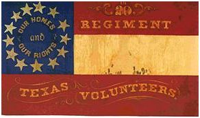 Regimental flag of the 20th Texas.